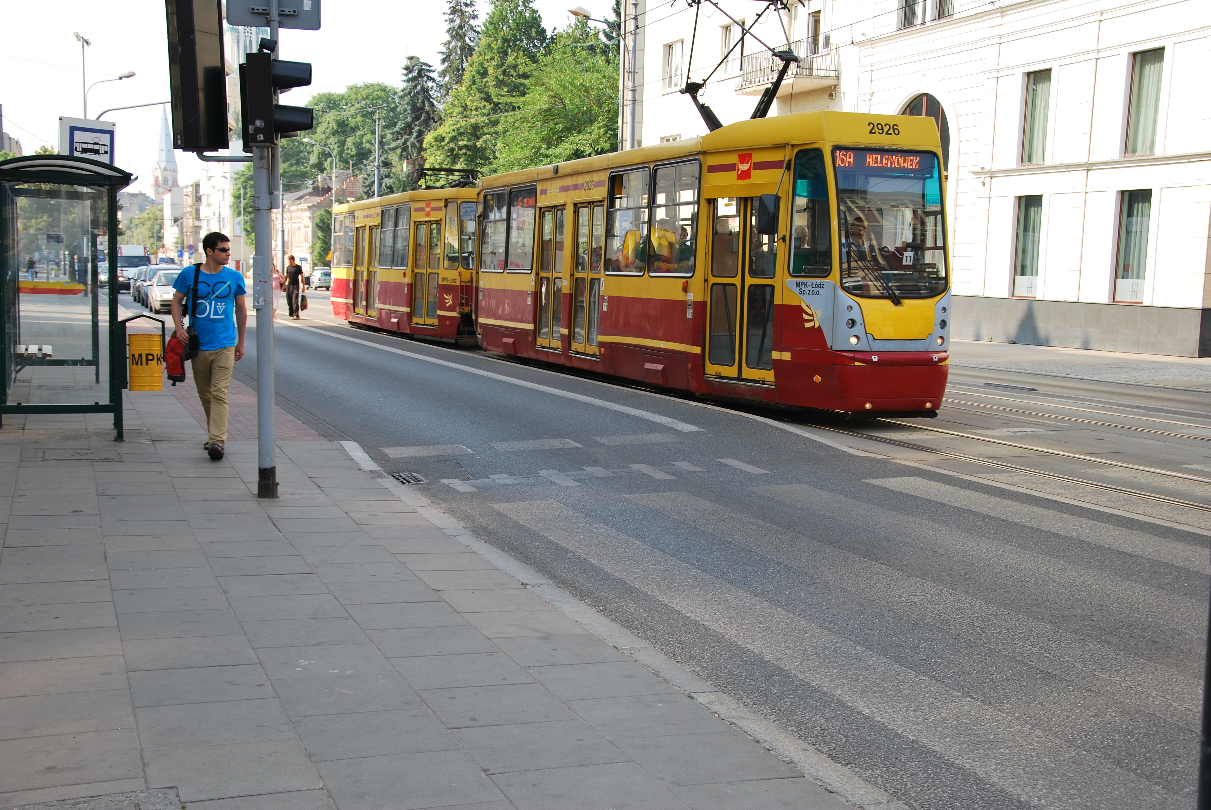 Vienna-like tram stop in Łódź, Piotrkowska Street